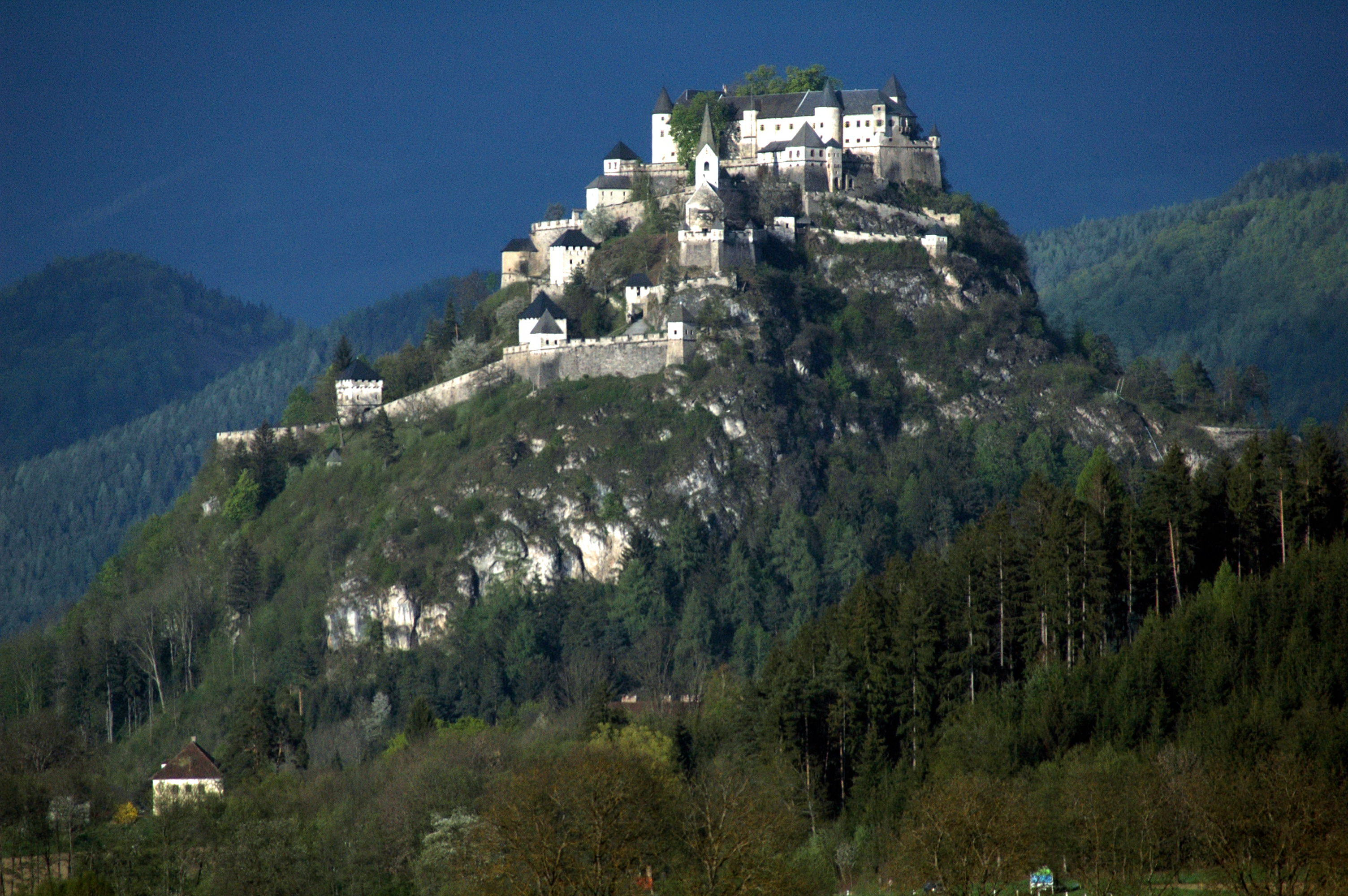 Castle Hochosterwitz, municipality Sankt Georgen am Laengsee, district Sankt Veit an der Glan, Carinthia, Austria, EU